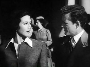 Cropped screenshot of Hedy Lamarr and Robert Walker from the trailer for the film Her Highness and the Bellboy